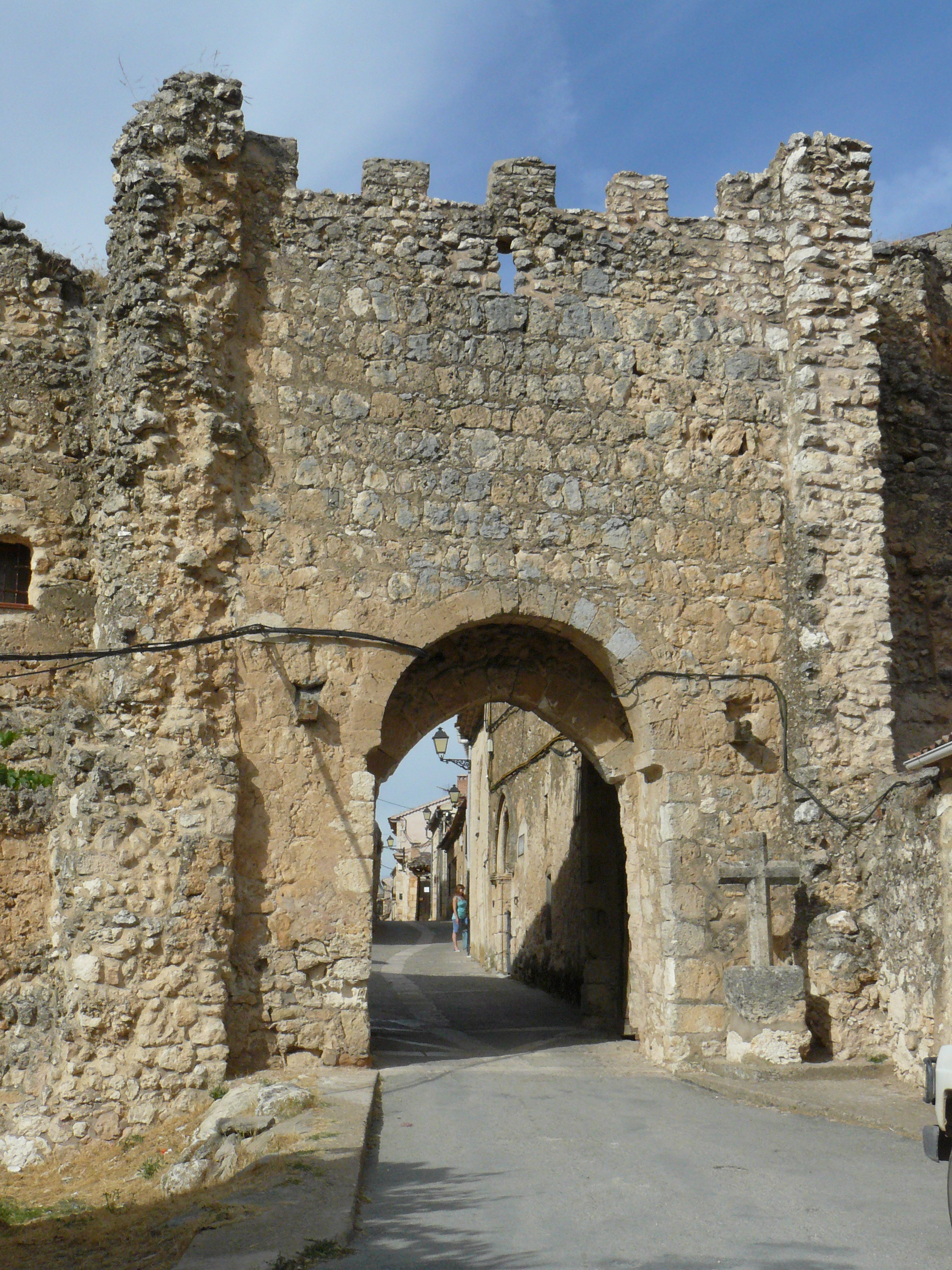 Town Gate, Maderuelo, Segovia (Spain)